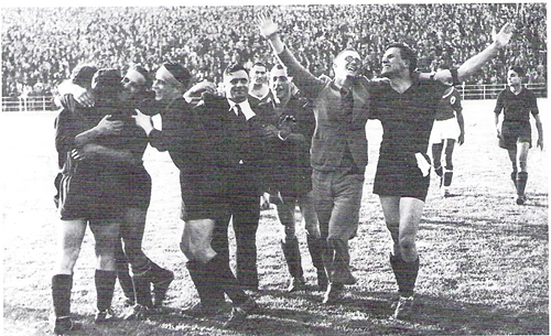 A Académica venceu o Benfica por 4-3 em 1939 e conquistou a 1ª edição da Taça de Portugal.